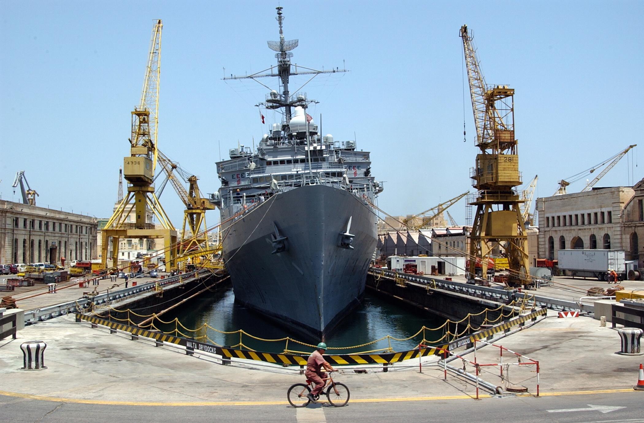 Cospicua, Malta (Jul. 15, 2003) -- A Maltese shipyard worker heads home on his bicycle after a day's work on USS La Salle (AGF 3). La Salle arrived in the country of Malta for a maintenance availability period. U.S. Navy photo by Photographer’s Mate 2nd Class Todd Reeves. (RELEASED)